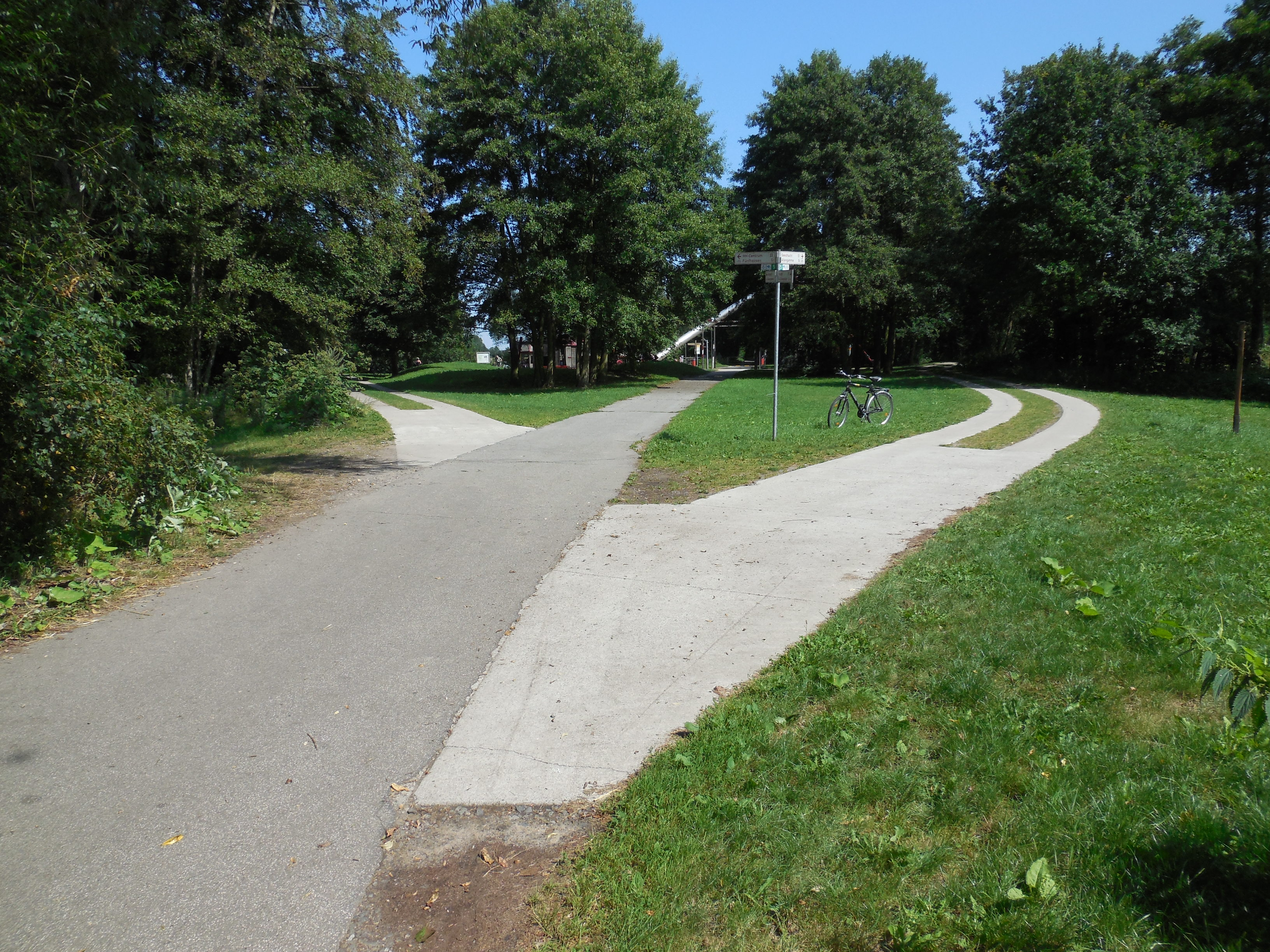 Junction of Marschbahn Hamburg